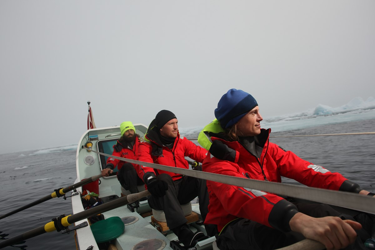 Fiann Paul, Alex Gregory, Carlo Facchino aboard Polar Row reached the Northernmost Latitude at the edge of the Arctic ice pack 79'55'500N